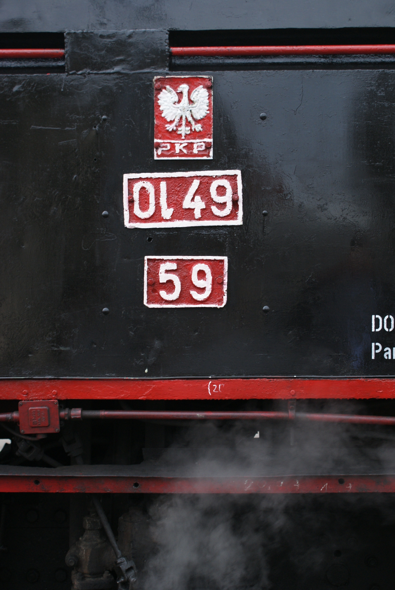 „With Steam across the Greater Poland“ – rail event: heritage rail Ol49-59 + 3xBp120A Line: Wolsztyn ⇔ Zbąszynek ⇔ Gorzów Wlkp. ⇔ Świątki Organizer: Towarzystwo Przyjaciół Wolsztyńskiej Parowozowni